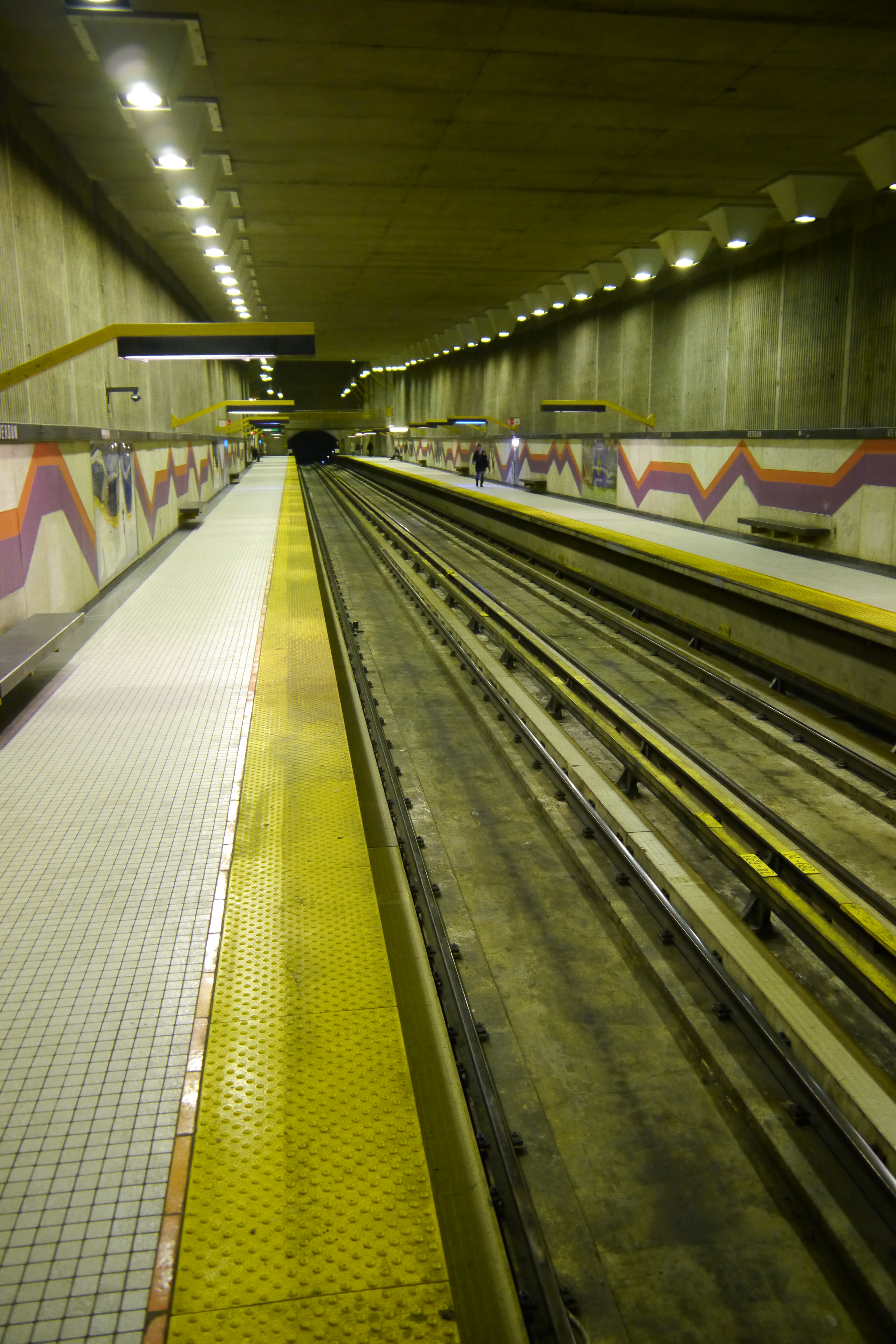 a view from the end of the station